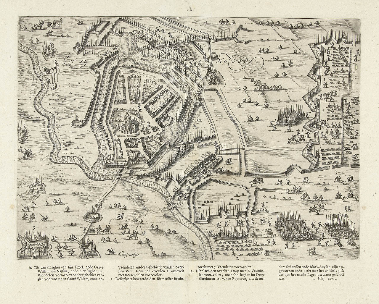 The siege of Steenwijk in 1592 by Prince Maurice